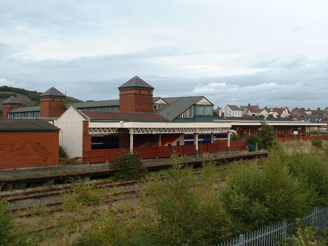 Llandudno Junction. Railway Station - viewed from the South